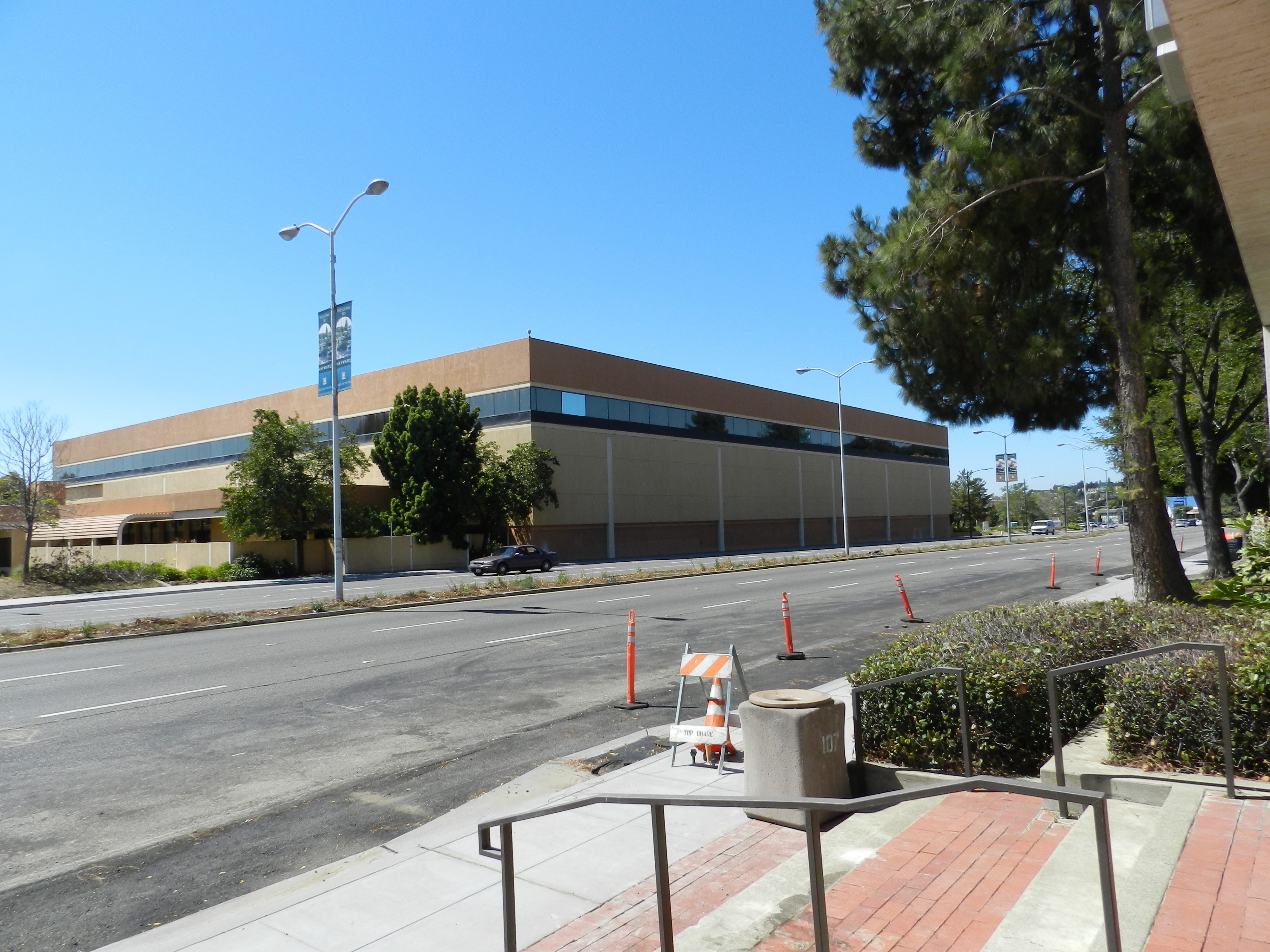 Former headquarters of the now defunct Mervyns dept store chain, Hayward